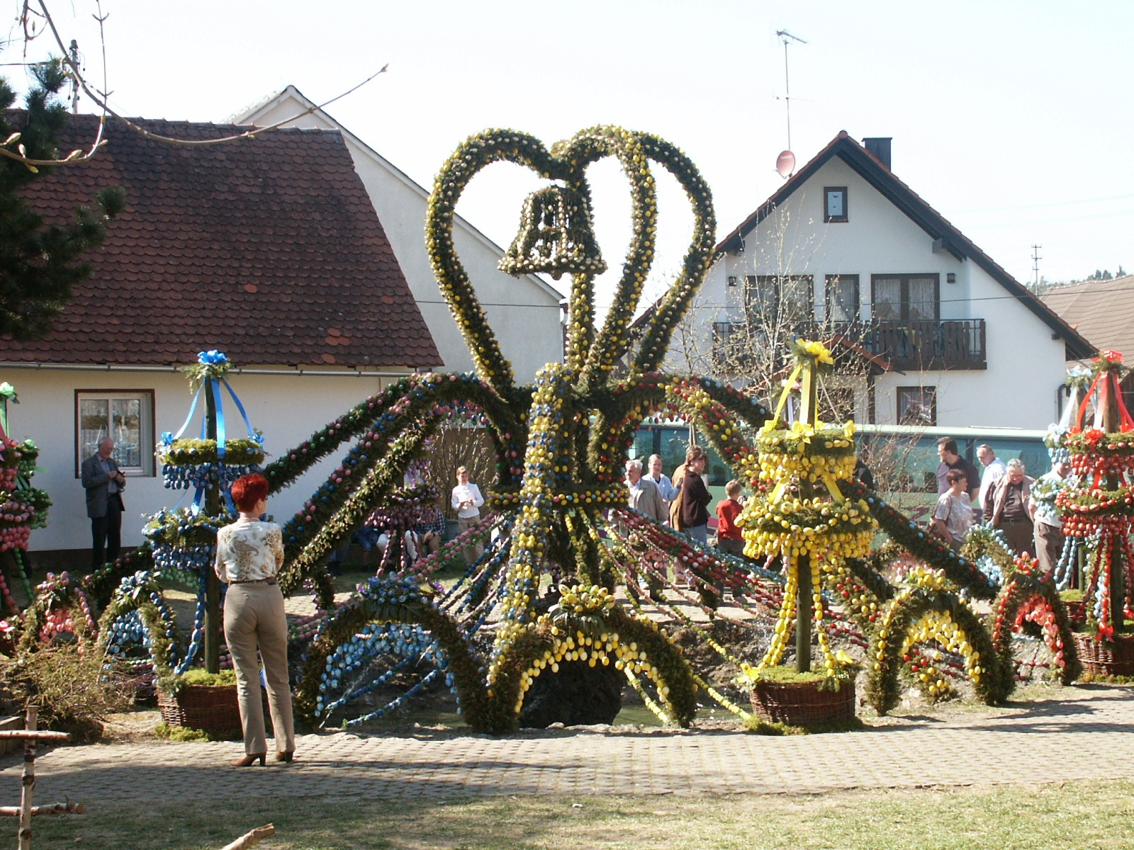 Easter well in Bieberbach (Franconia, Germany) in 2003